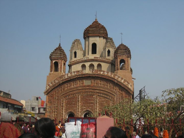 Temple of Radha Binod commonly known as Joydeb